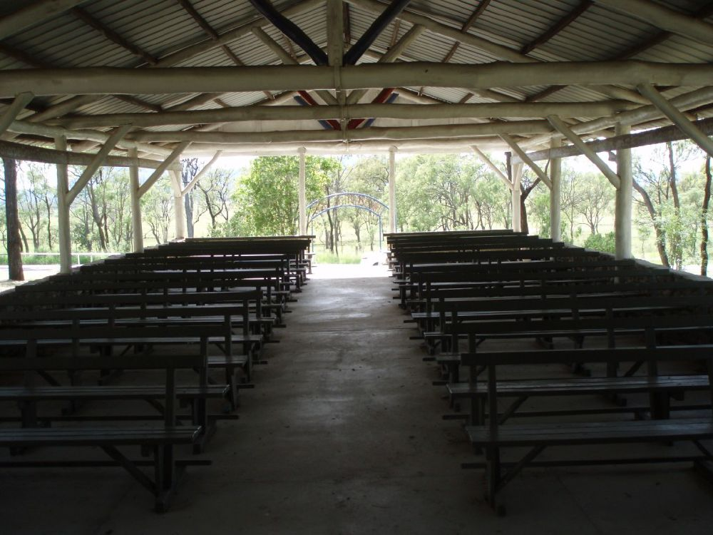 St Christophers Chapel (2009) - interior